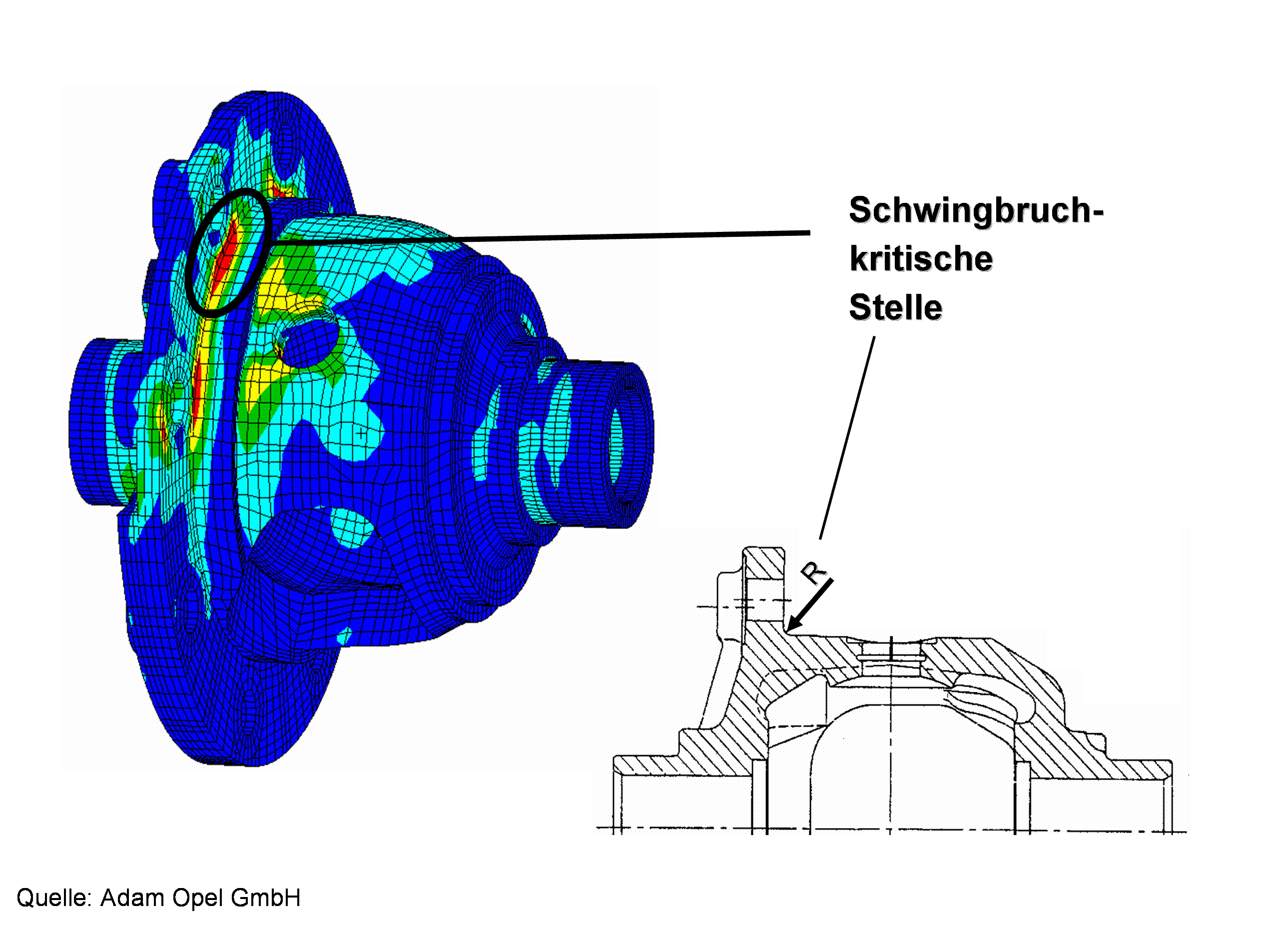 application of CAO, picture 1